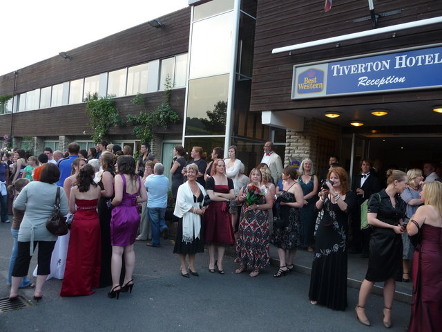 Tiverton : Tiverton Hotel The Tiverton High School prom is taking place here.